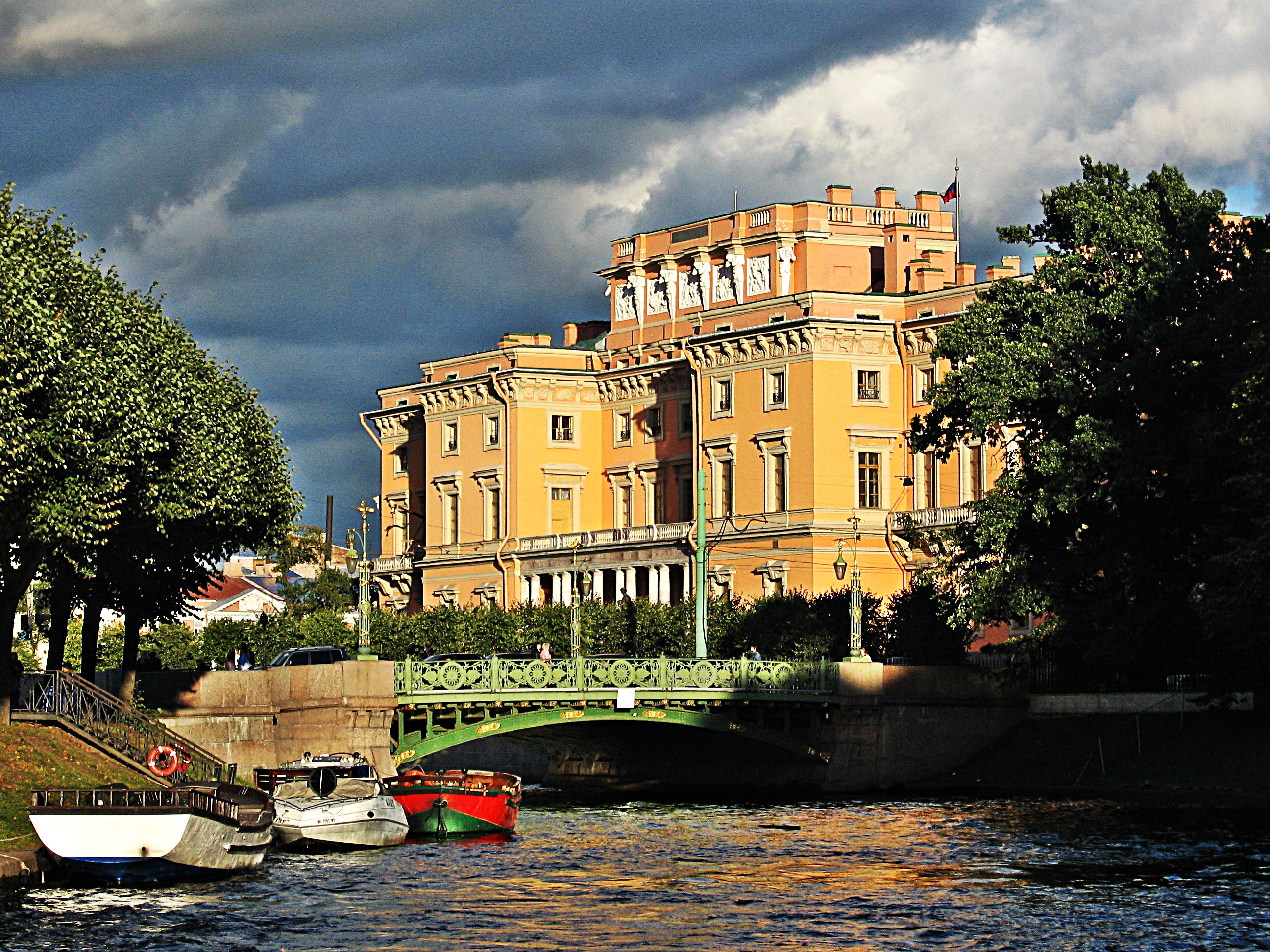 Neva canals